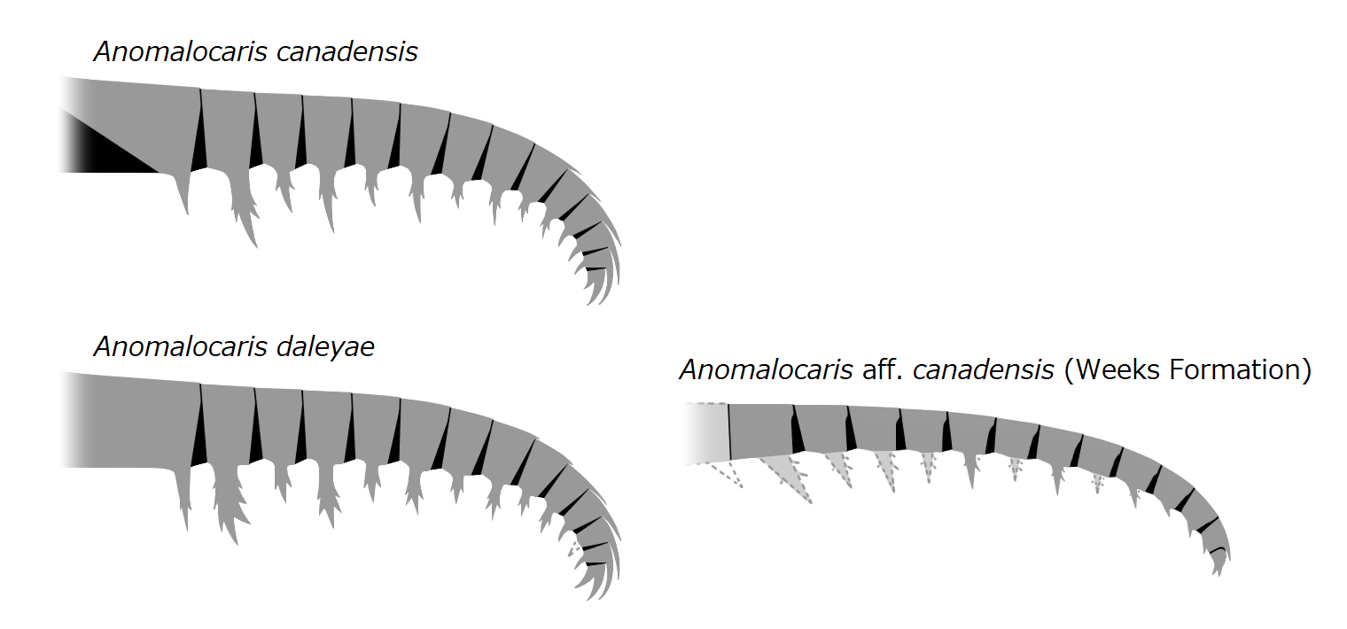 Frontal appendages of the radiodont genus Anomalocaris. Size not to scale.